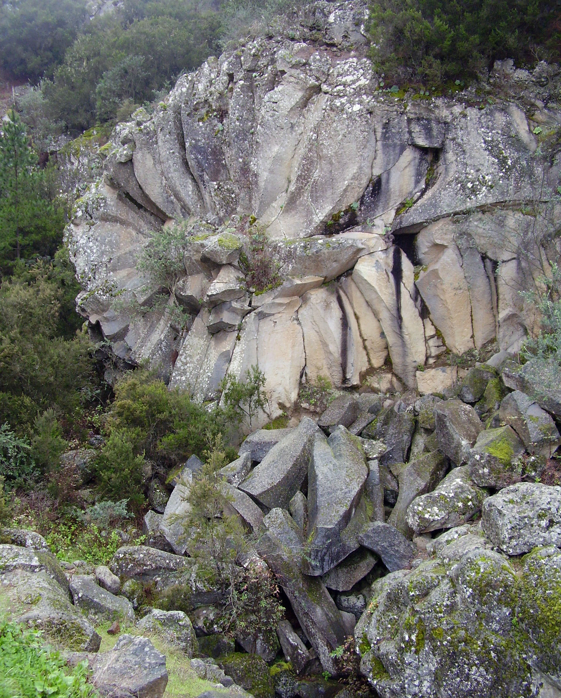 La Piedra de la Rosa at Parque nacional del Teide. It is result of prosesses which were initiated when the lava river got cold, which formed this singular geological structure. When lava is solidifying, it's mass contracts and cracks; that is when the rocks are exposed to the wind and weather, they sometimes tent to crack adopting some characteristic shapes. In some cases, you can find balls produced by spherical flake off; in other cases, when the rocks are broken into hexagonal prisms, the "organs" are created. If the cracks are of a radial type, "stone pedals" are easily loosen, producing the formation of roses.